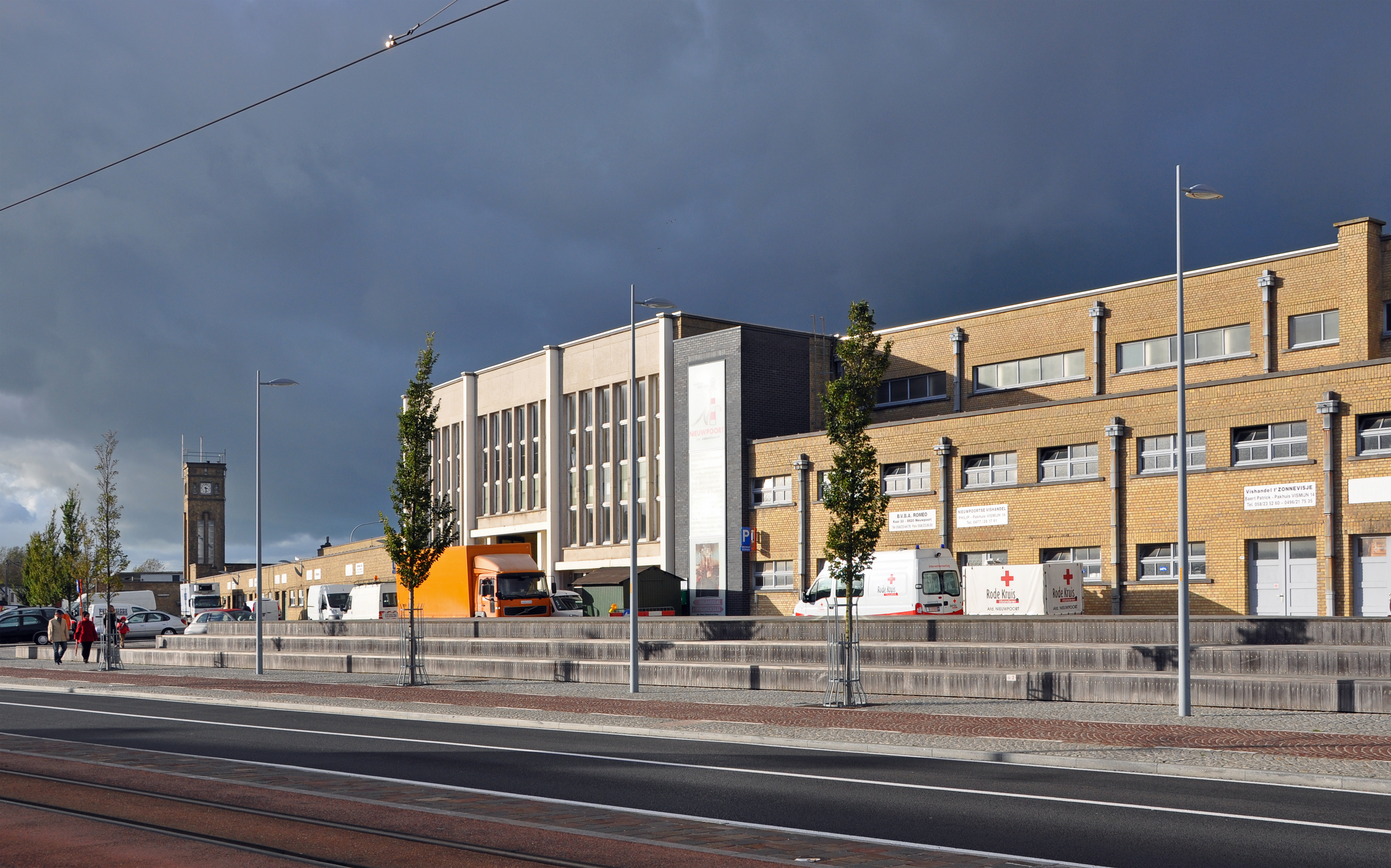 Nieuwpoort (Belgium): Fish market